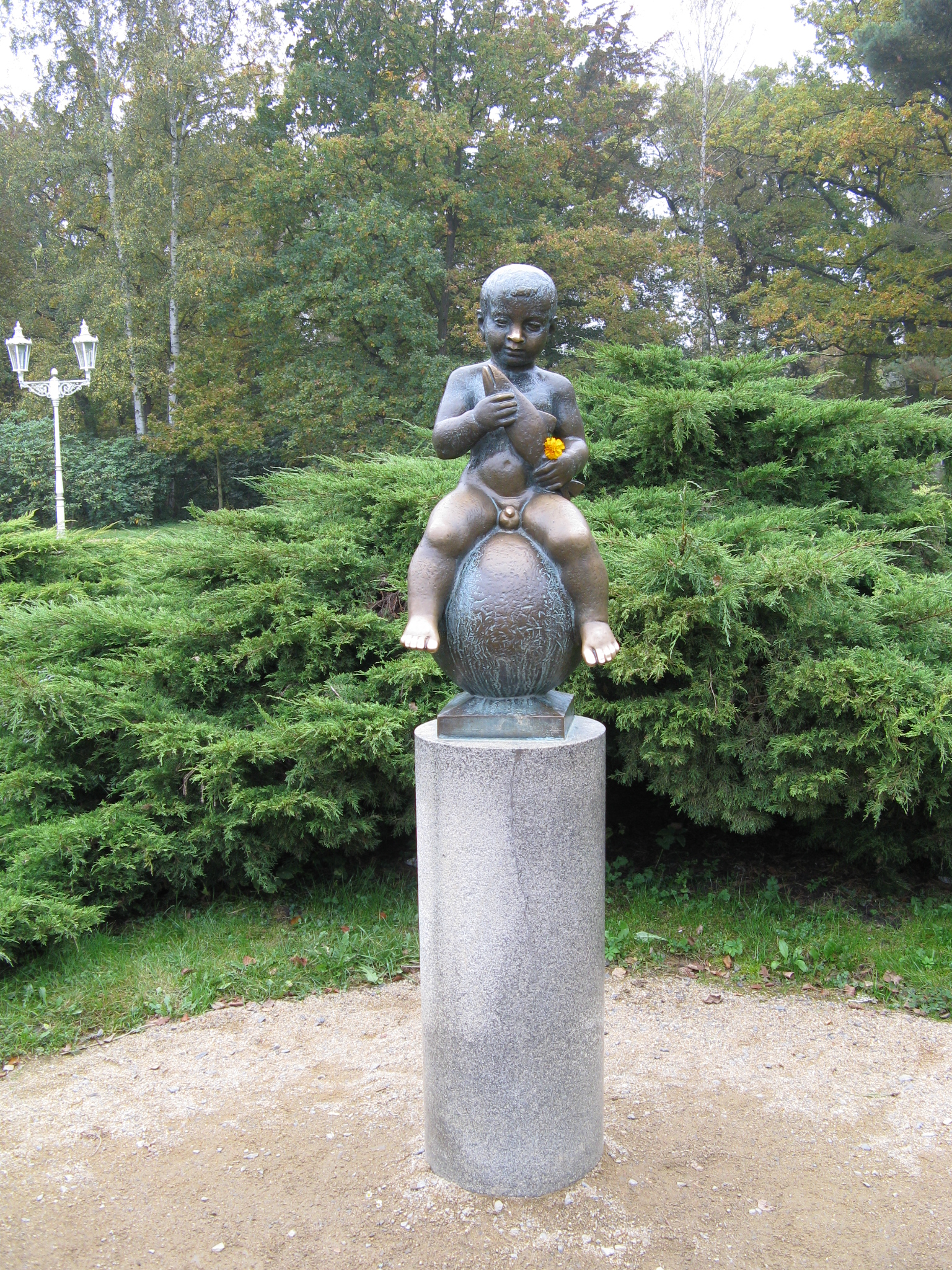 Franzensbad/Bohemia, statue of so-called "Franzl" (Frantisek)